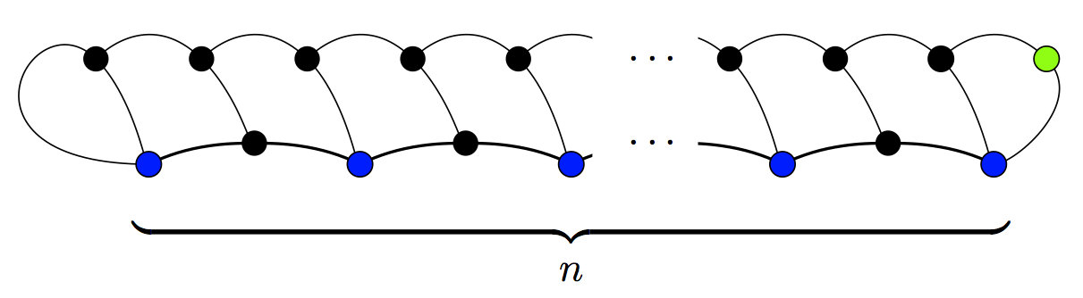 Game of sprouts with n initial vertices, ending in maximum number of moves